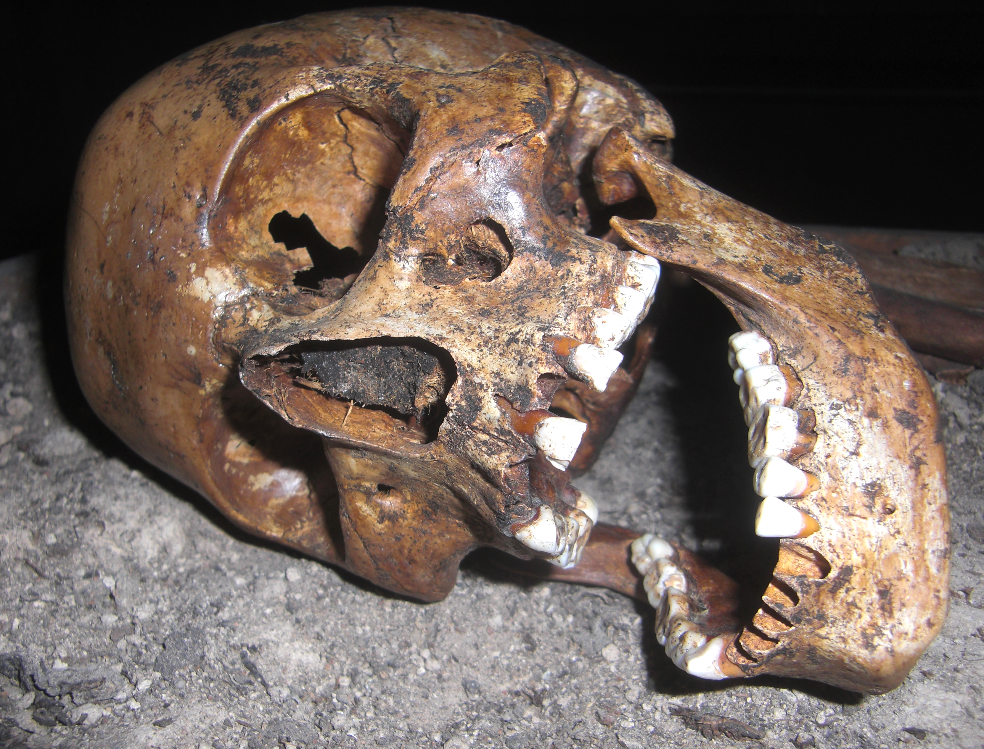 The skull of the "Raspberry girl". A skeleton was found in 1943 in a peatbog in Luttra parish south of Falköping in Västergötland, Sweden. The skeleton was of a young woman from the Middle Neolithic (circa 3000 BC). Since 1994 the skeleton is shown in an exhibition at Falbygdens museum in Falköping.